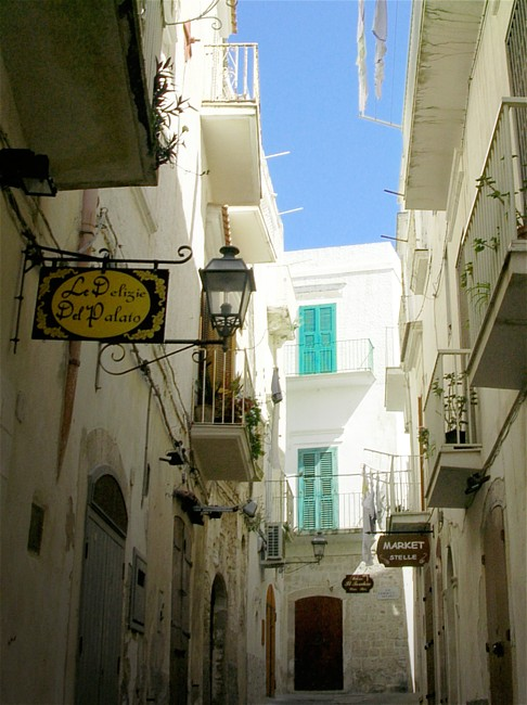 Vieste on the Gargano coast picture taken by user:Idéfix, july 2005